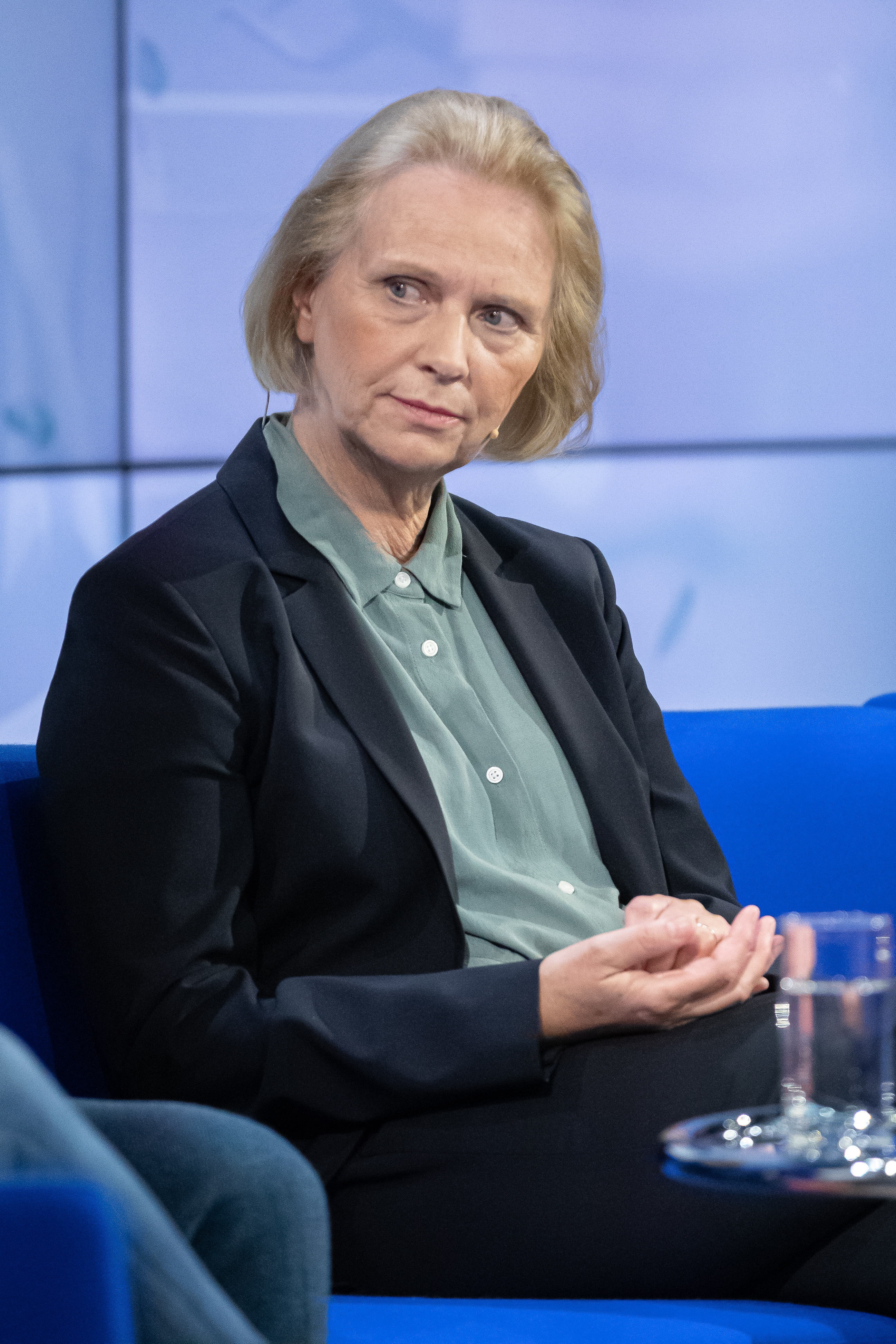 Walburga Hülk-Althoff at the Frankfurt Book Fair 2019